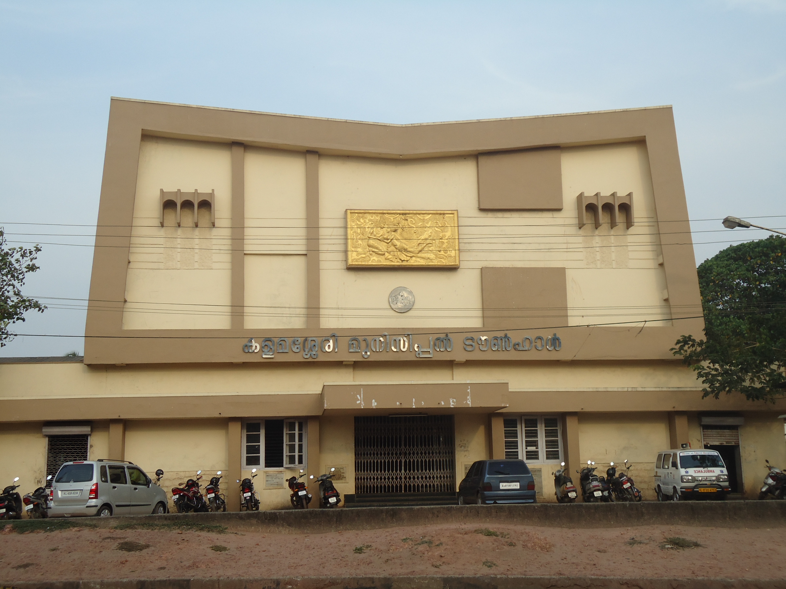 Kalamassery Municipal Town Hall.